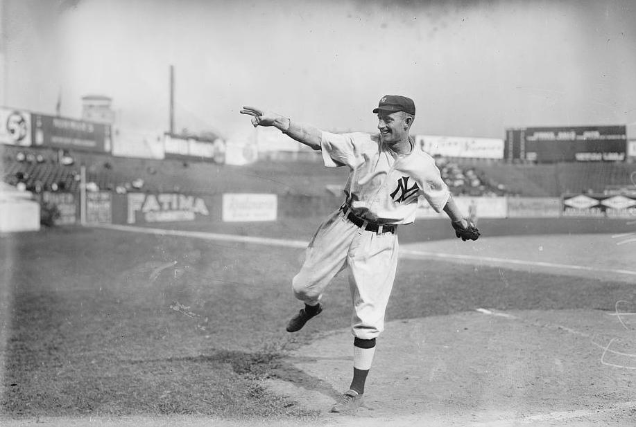 Bain News Service,, publisher. [Marty McHale, New York AL (baseball)] [1913] 1 negative : glass ; 5 x 7 in. or smaller. Notes: Original data provided by the Bain News Service on the negatives or caption cards: McHale, NY. Corrected title and date based on research by the Pictorial History Committee, Society for American Baseball Research, 2006. Forms part of: George Grantham Bain Collection (Library of Congress). Format: Glass negatives. Repository: Library of Congress, Prints and Photographs Division, Washington, D.C. 20540 USA, General information about the Bain Collection is available at Persistent URL: Call Number: LC-B2- 2847-4